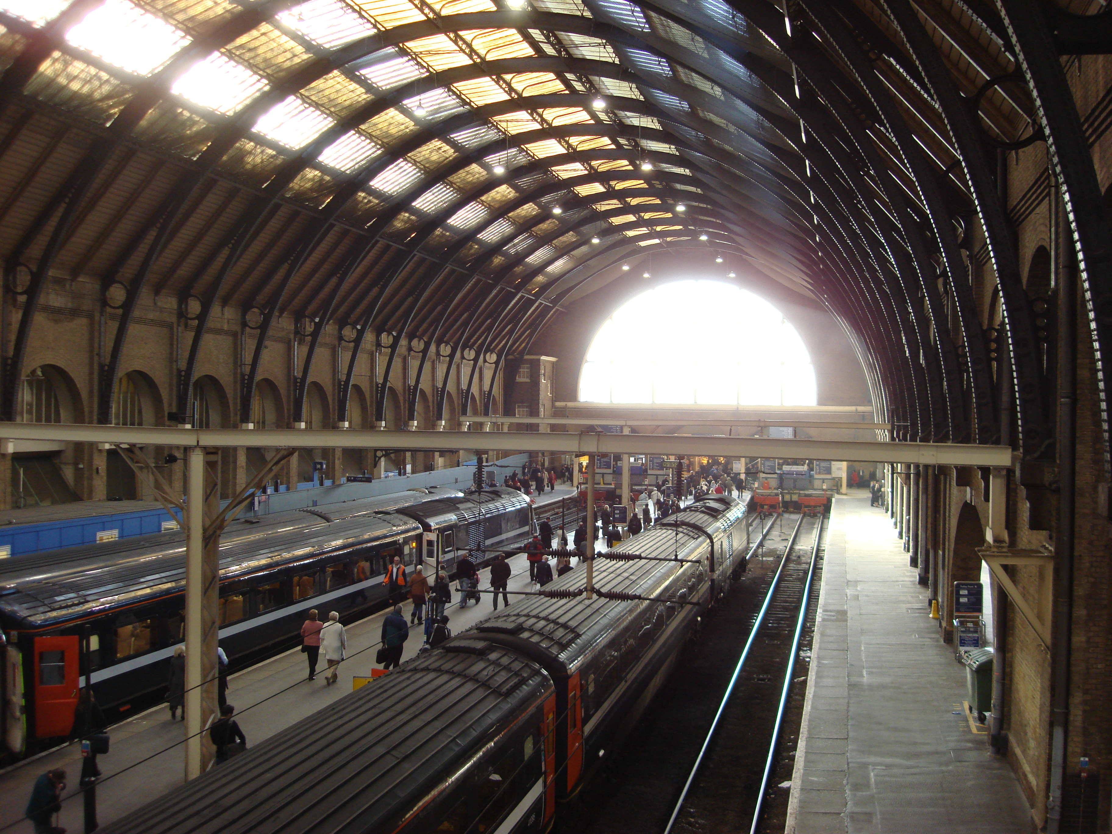 King's Cross railway station, London, UK